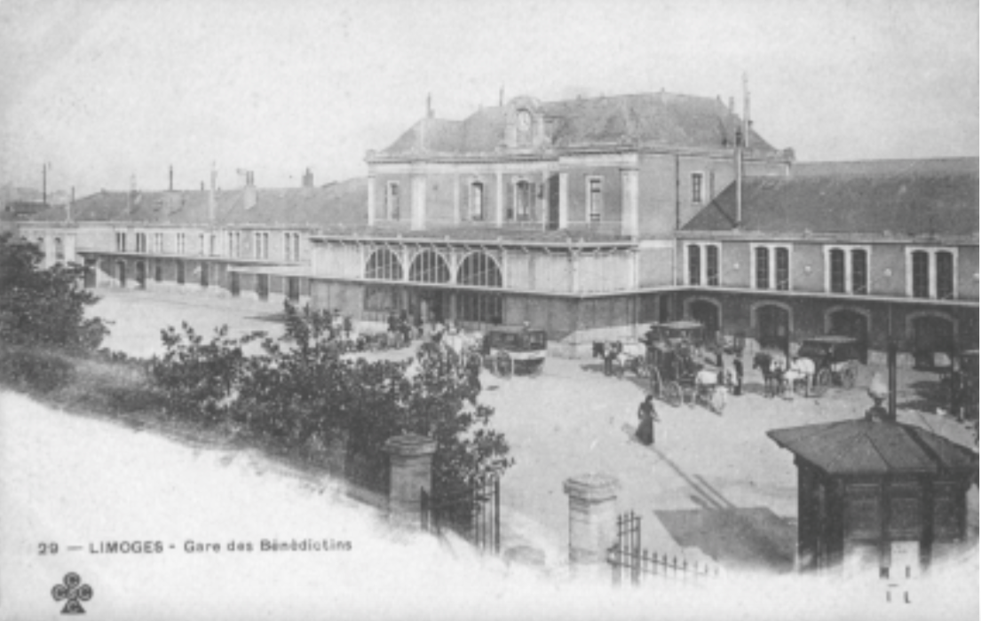 Old postcard of the former rail station of Limoges (Haute-Vienne, France).